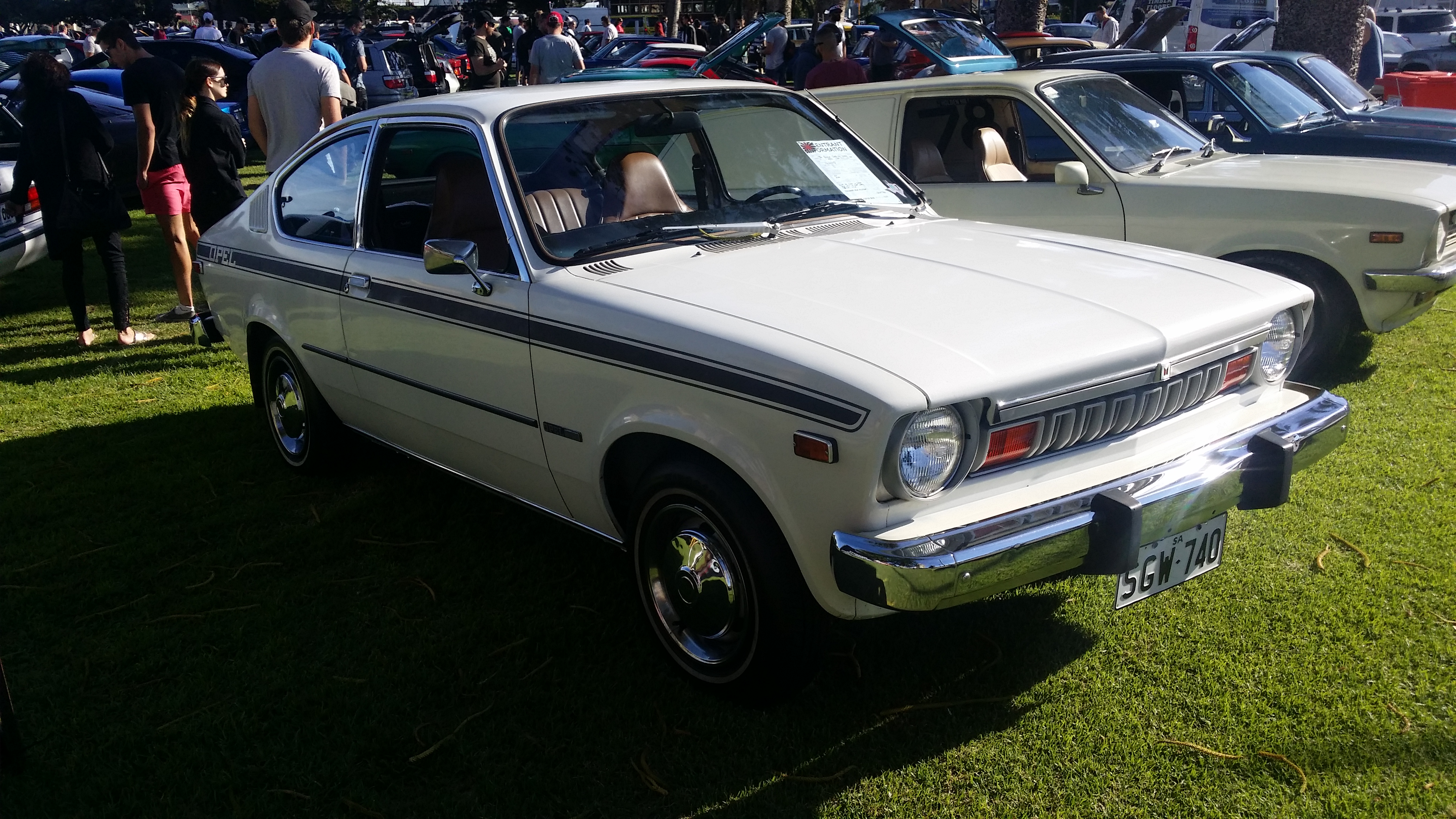 I couldn't believe my eyes when I saw this!! I knew they existed, but I never thought I'd ever see one, let alone seeing one here! As we all know, these were a rebadged Isuzu Gemini, built in Japan and sold in the US as the Buick Opel, in sedan and coupe bodystyles. We saw them in Australia as the Holden Gemini. I also noticed the little 'Isuzu' badge was still displayed on the grill, even though the 'Opel' name was clearly displayed everywhere else and then there was a little sticker on the back saying 'Buick'. There was also a badge on the back saying 'Opel - By Isuzu'. This one was in fantastic condition! Not sure who imported it in, but this needs to be kept in a safe place! The ultra large US style bumpers give this a more bulkier look about it.